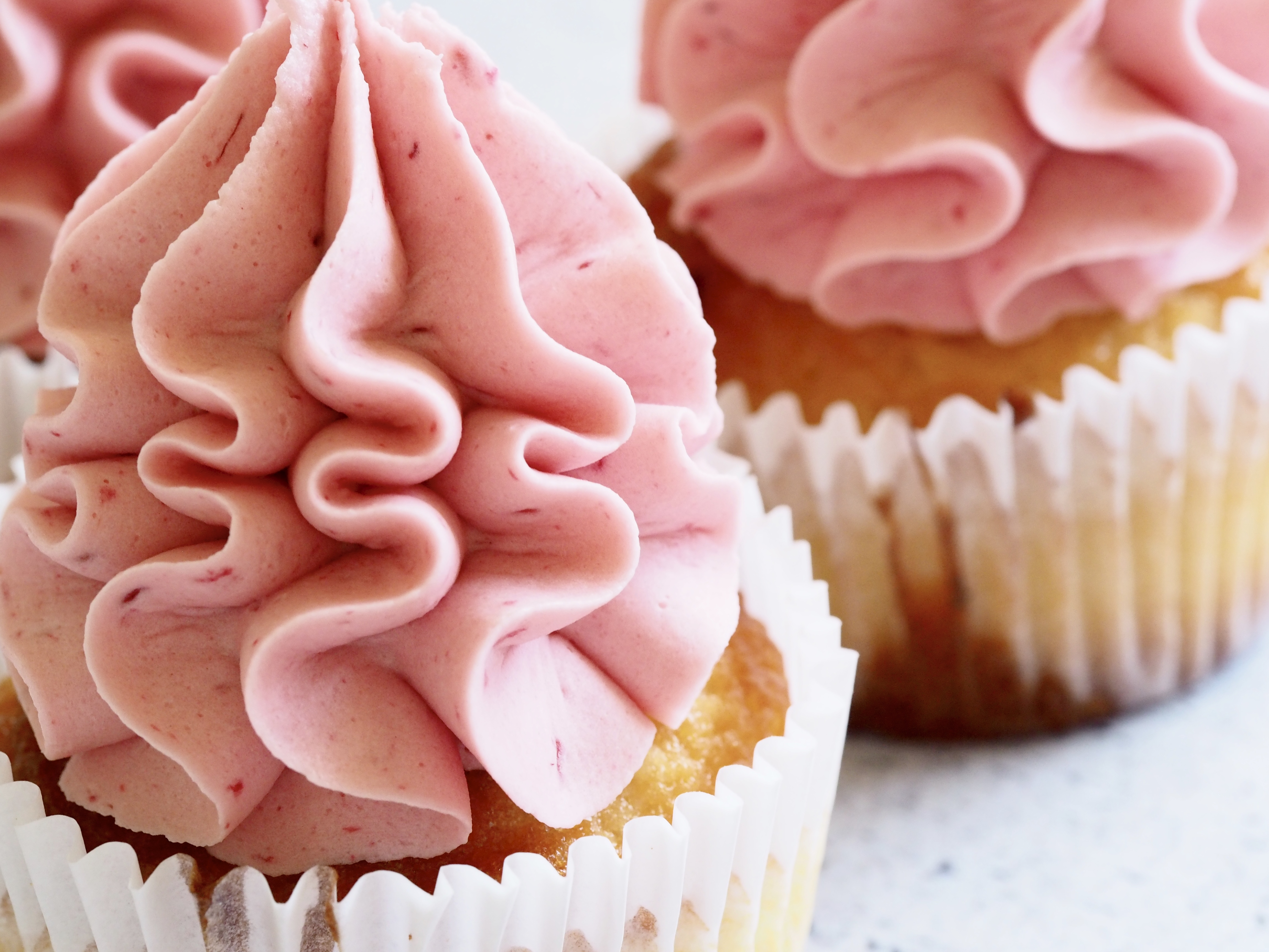 Strawberry iced cupcakes